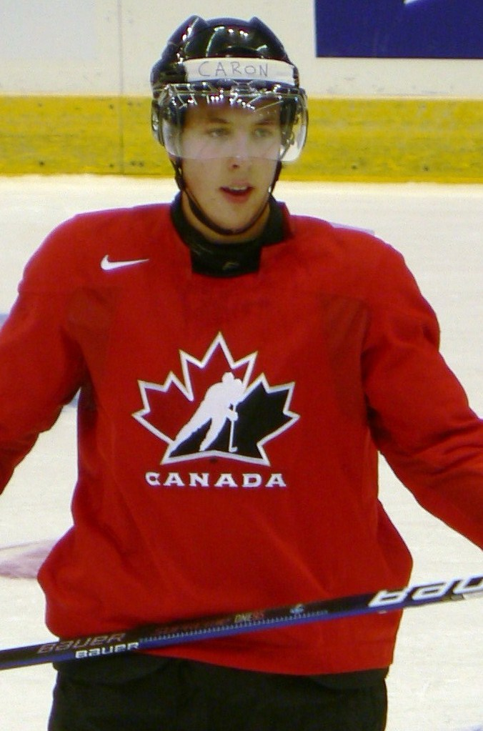 Jordan Caron during Team Canada's tryout camp for the 2010 World Junior Championships.